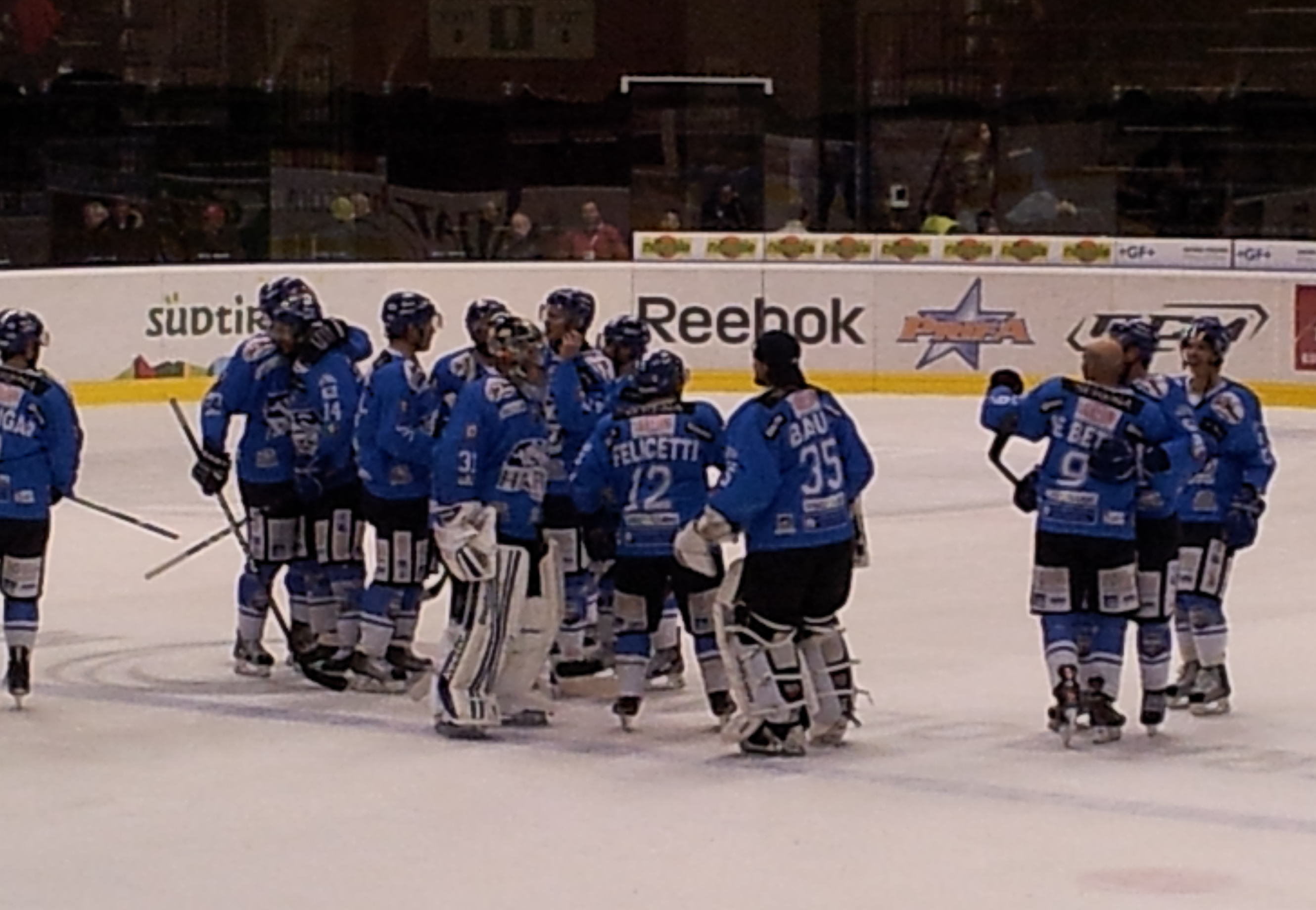 The SG Cortina wins the Coppa Italia 2011-2012